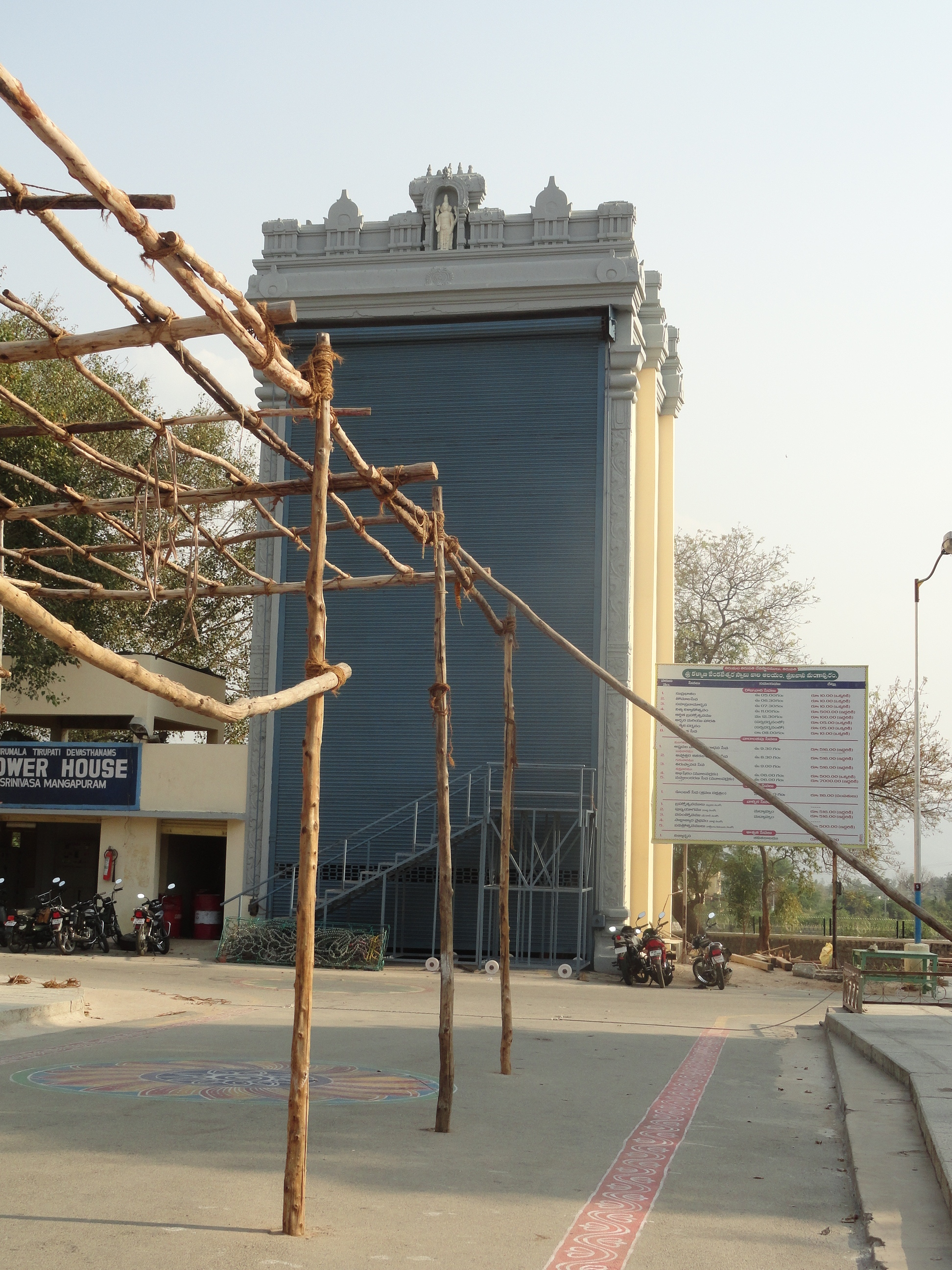 a structure to keep RATHAM of kalyana venkatesara swamy